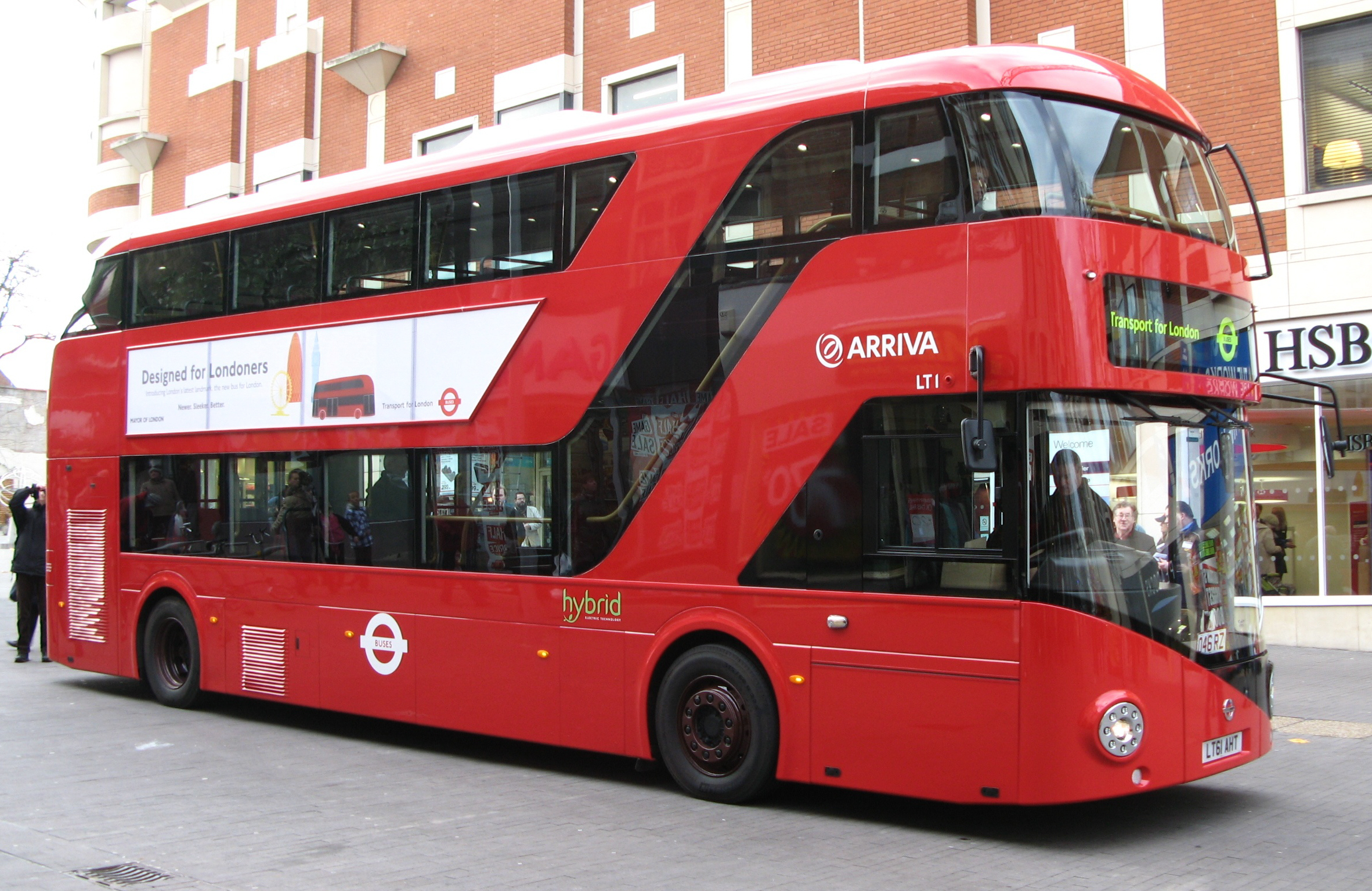 Members of the public inspect Arriva London bus LT1 (reg. LT61 AHT), the first of the batch of 8 pre-production working prototypes of the New Bus for London. Already wearing Arriva livery, it's pictured here in the pedestrianised High Street in Sutton while on its tour around the city for public viewings, prior to entering trial revenue earning service on Arriva's London Buses route 38 as additional short worked extras.